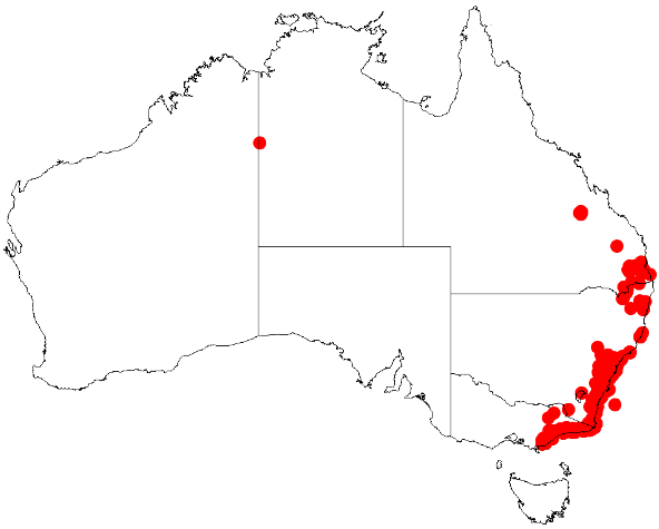 Scaevola ramosissima occurrence data downloaded from Australasian Virtual Herbarium on 12 May 2019